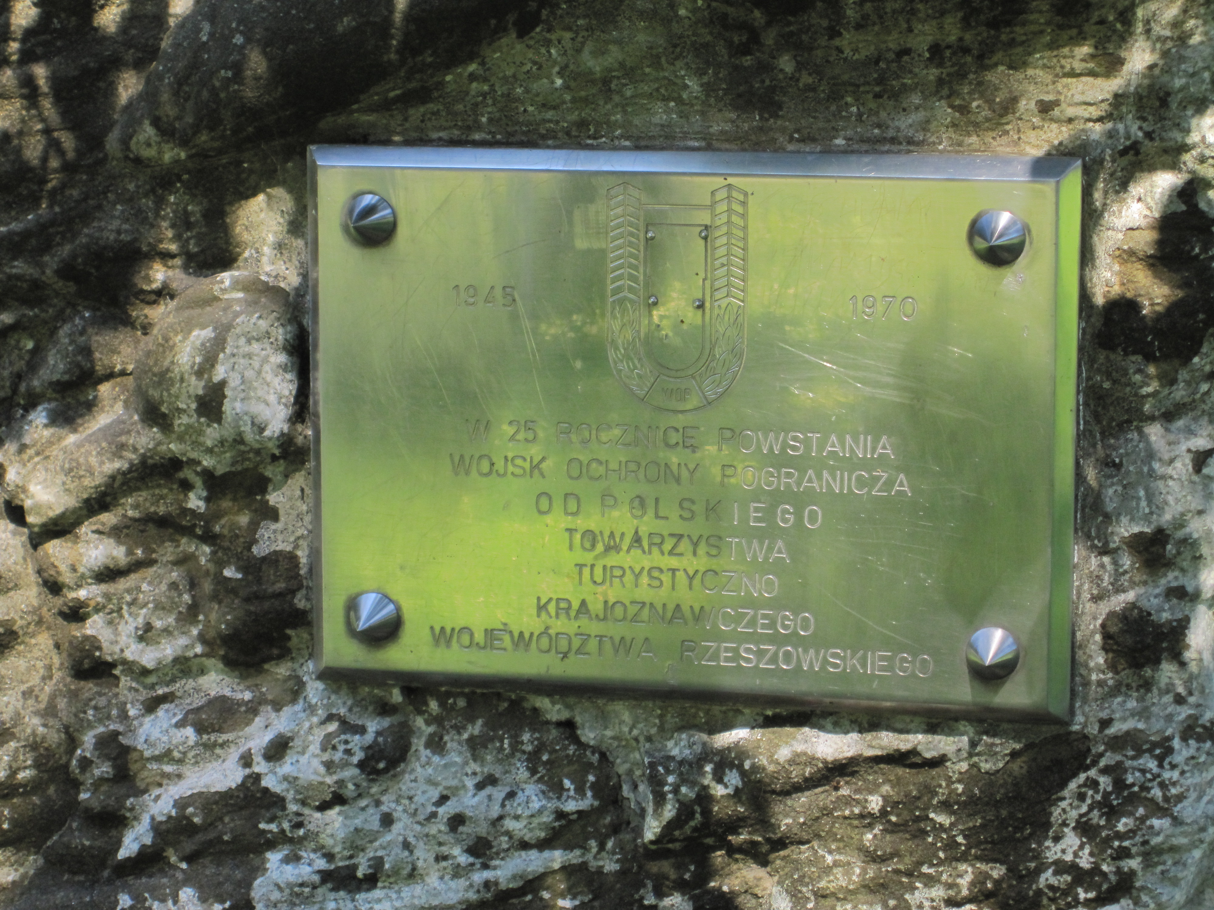 Wetlina, a monument commemorating the 25 anniversary of creation of Border Troops